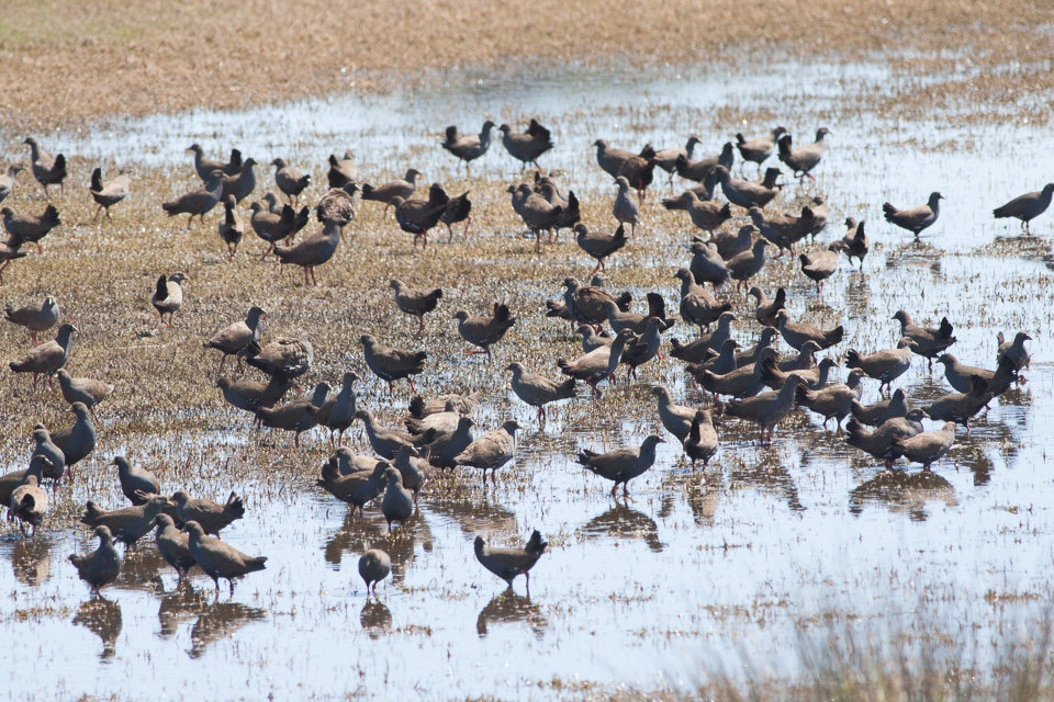 Black-tailed Nativehen Tribonyx ventralis, Waikerie, South Australia. Very unusual large numbers probably due to the rains.